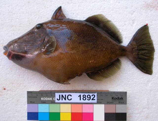 Sufflamen fraenatum from off New Caledonia. Locality: Récif To, Off Nouméa, New Caledonia. Fork Length 303 mm, Weight 714 grams. Date 2006/07/04